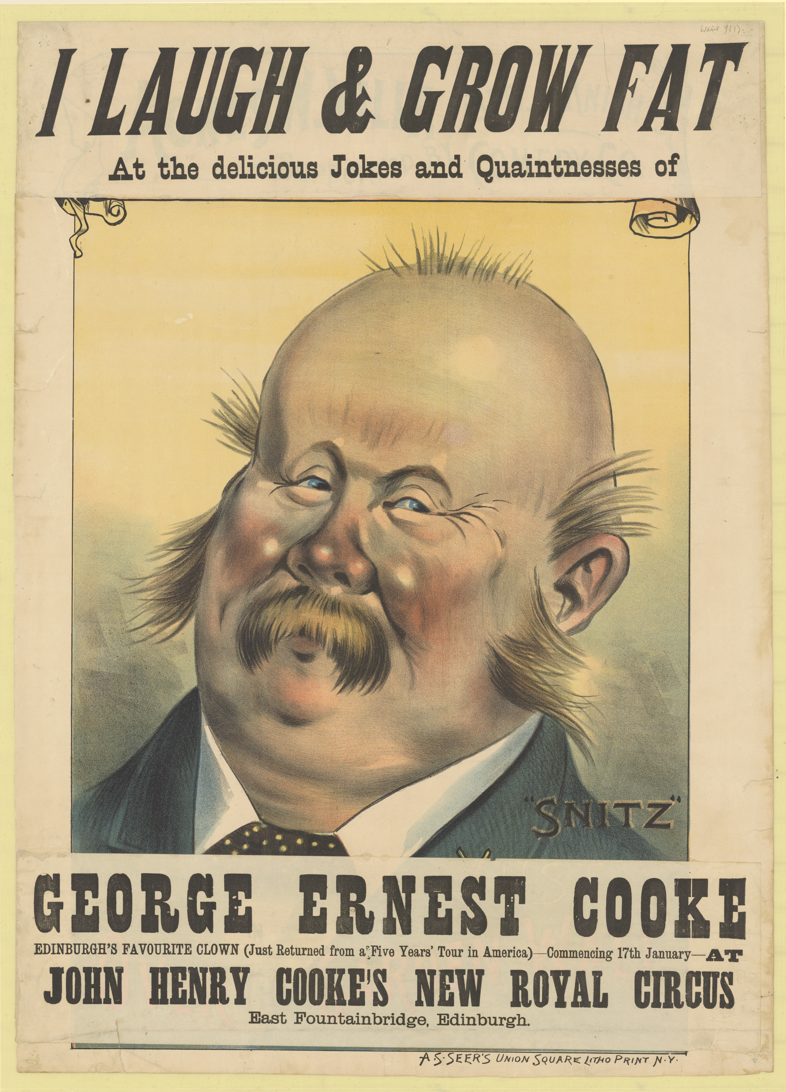 Caption: I laugh and grow fat at the delicious jokes and quaintnesses of George Ernest Cooke Edinburgh's favourite clown (just returned from a five years; tour in America). Commencing 17th January at John Henry Cooke's New Royal Circus, East Fountainbridge, Edinburgh.